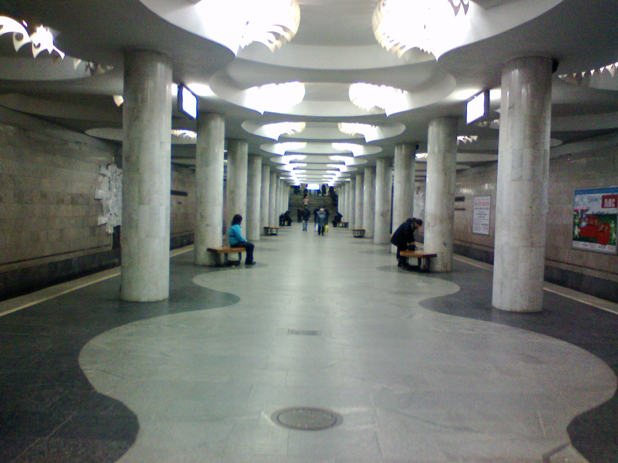 The metro station Studentsheskaya, Kharkiv.